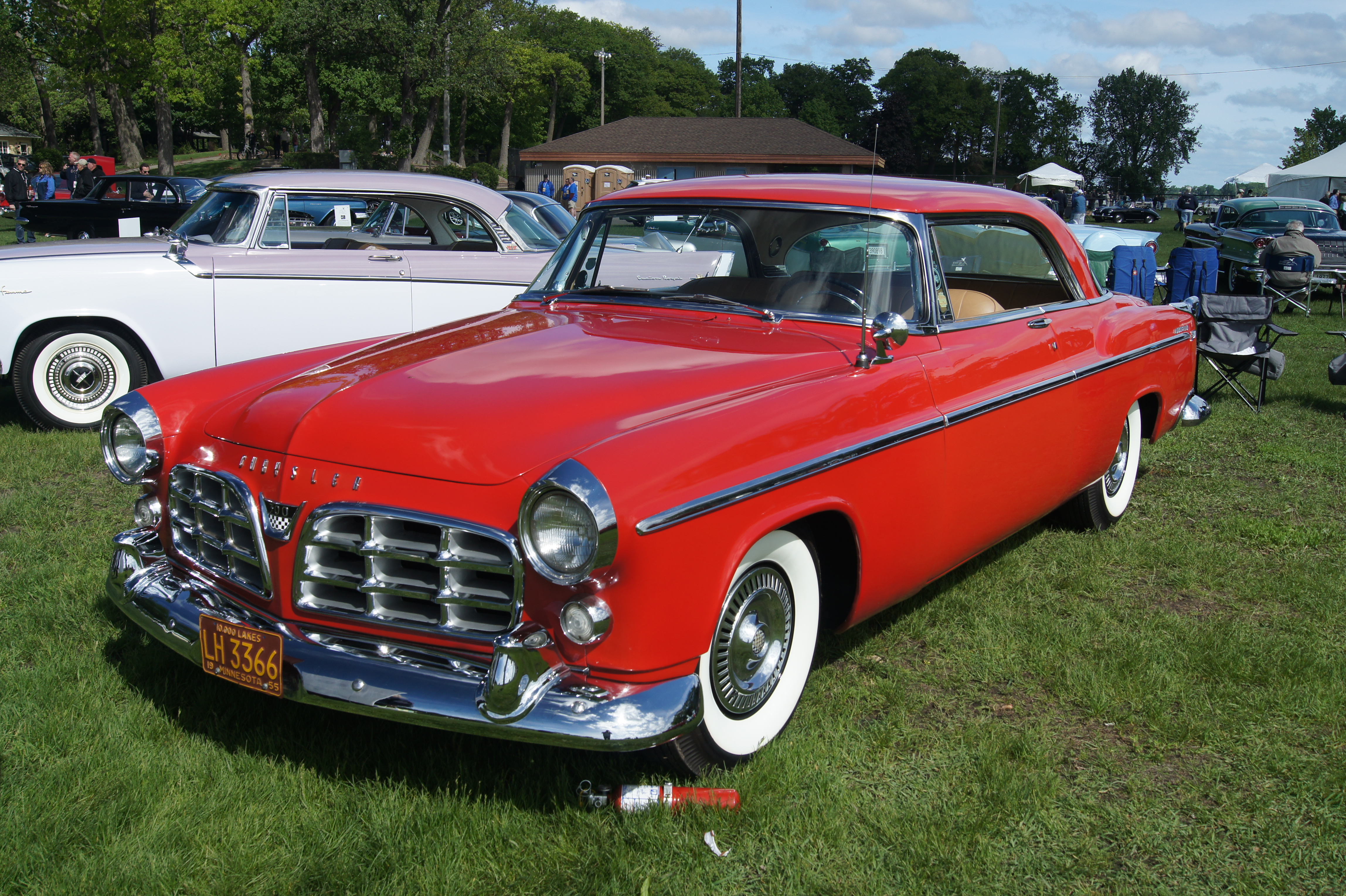 Inaugural 10,000 Lakes Concours d'Elegance to Benefit Courage Center Foundation June 2, 2013 Excelsior Commons Excelsior Minnesota Thousands of car pictures at the link below